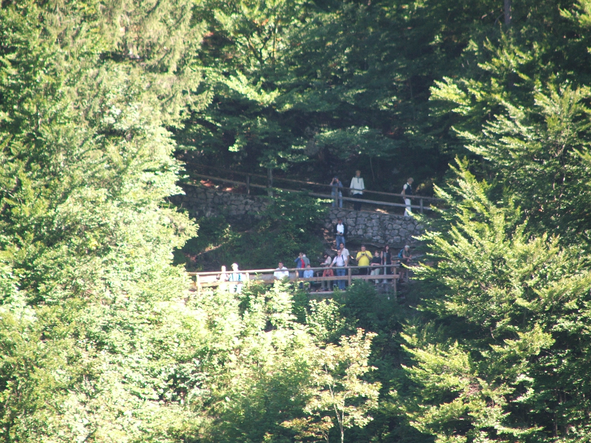 / Ratr: 40.0% (10 ratings)